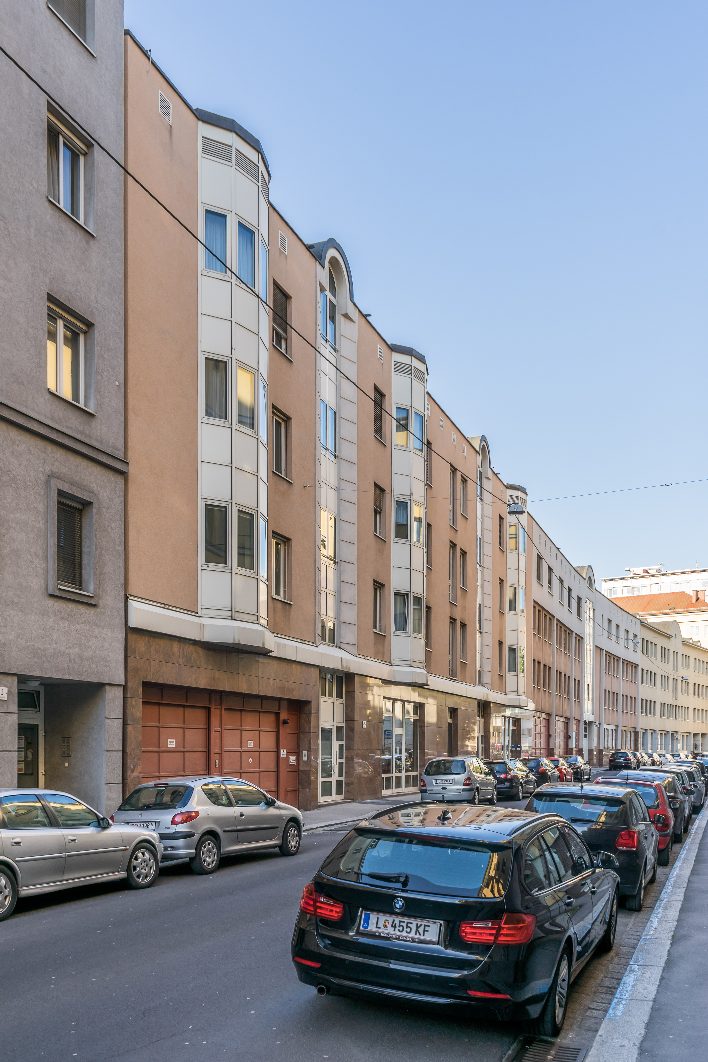 Justizanstalt Linz - Pochestraße